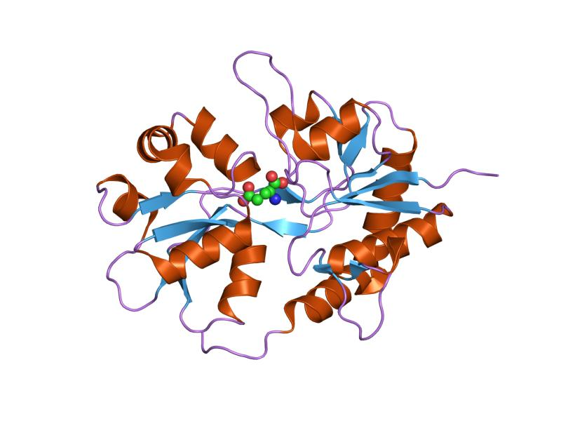 Cartoon representation of the molecular structure of protein registered with 1s50 code.